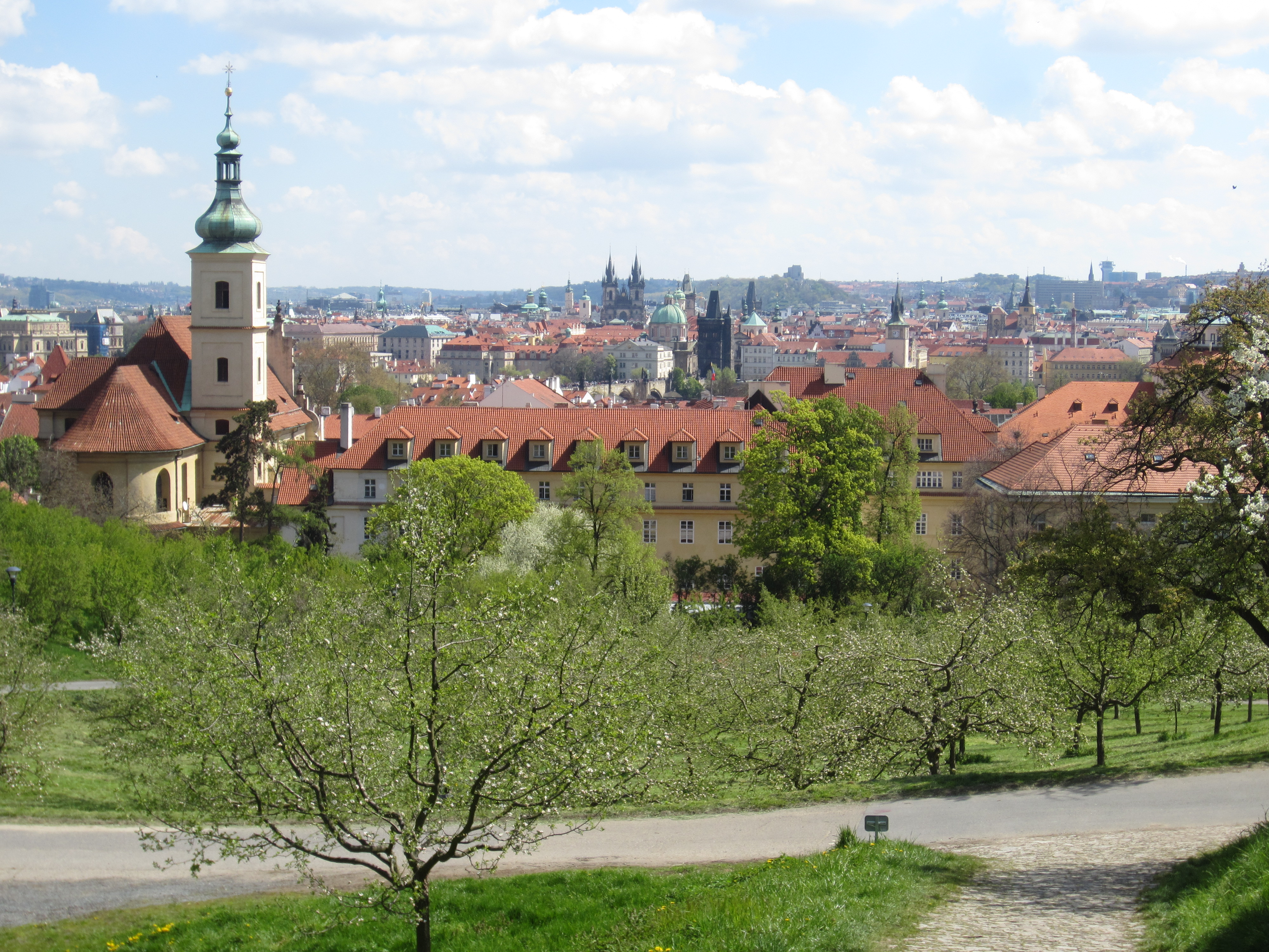 Prague, Czech Republic, April 2016